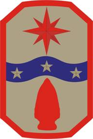 371st Sustainment Brigade Shoulder Sleeve Insignia from